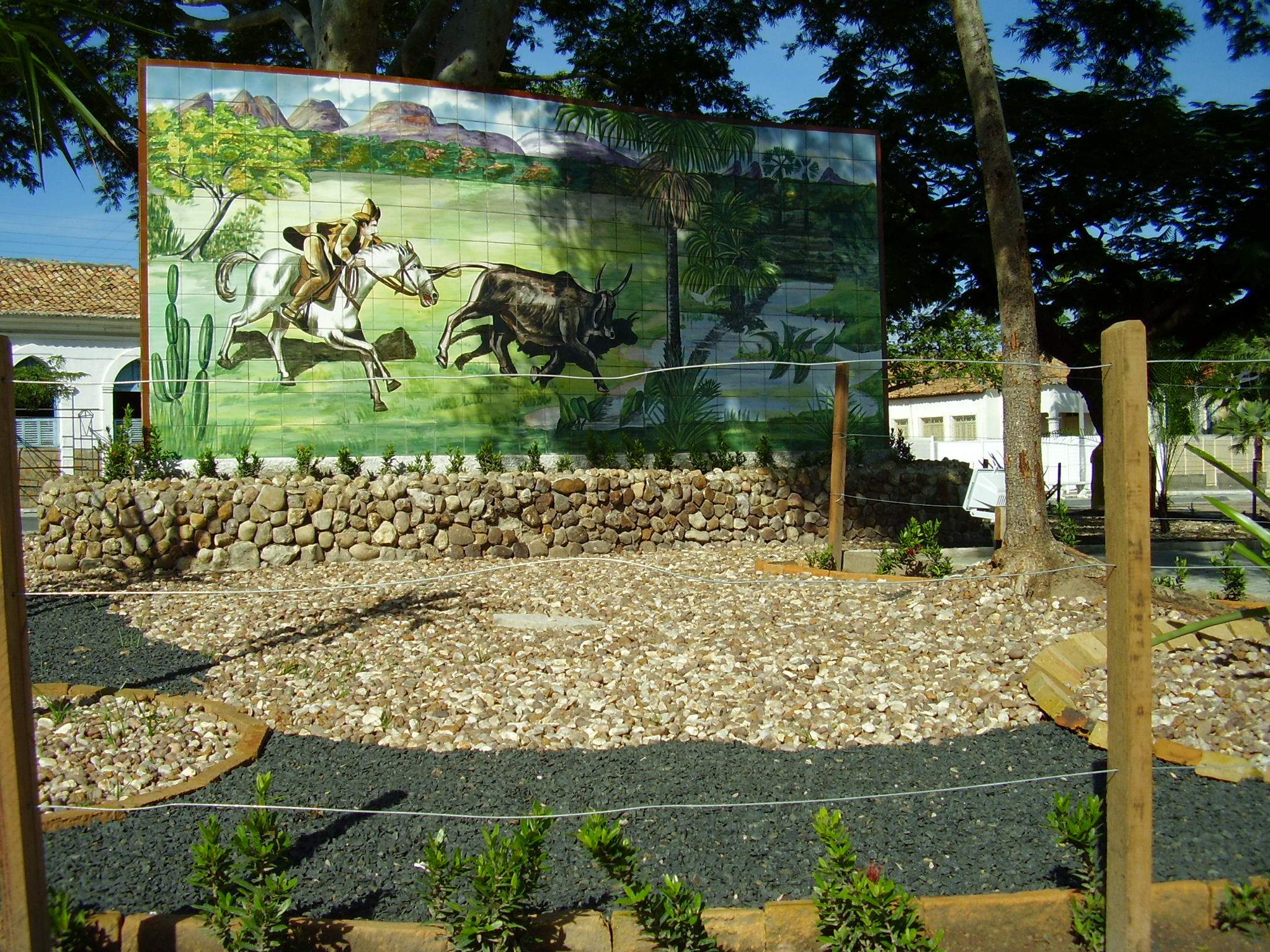 Panel Cowboy in art tiles in Bonn Square Primo in Campo Maior, Piaui.